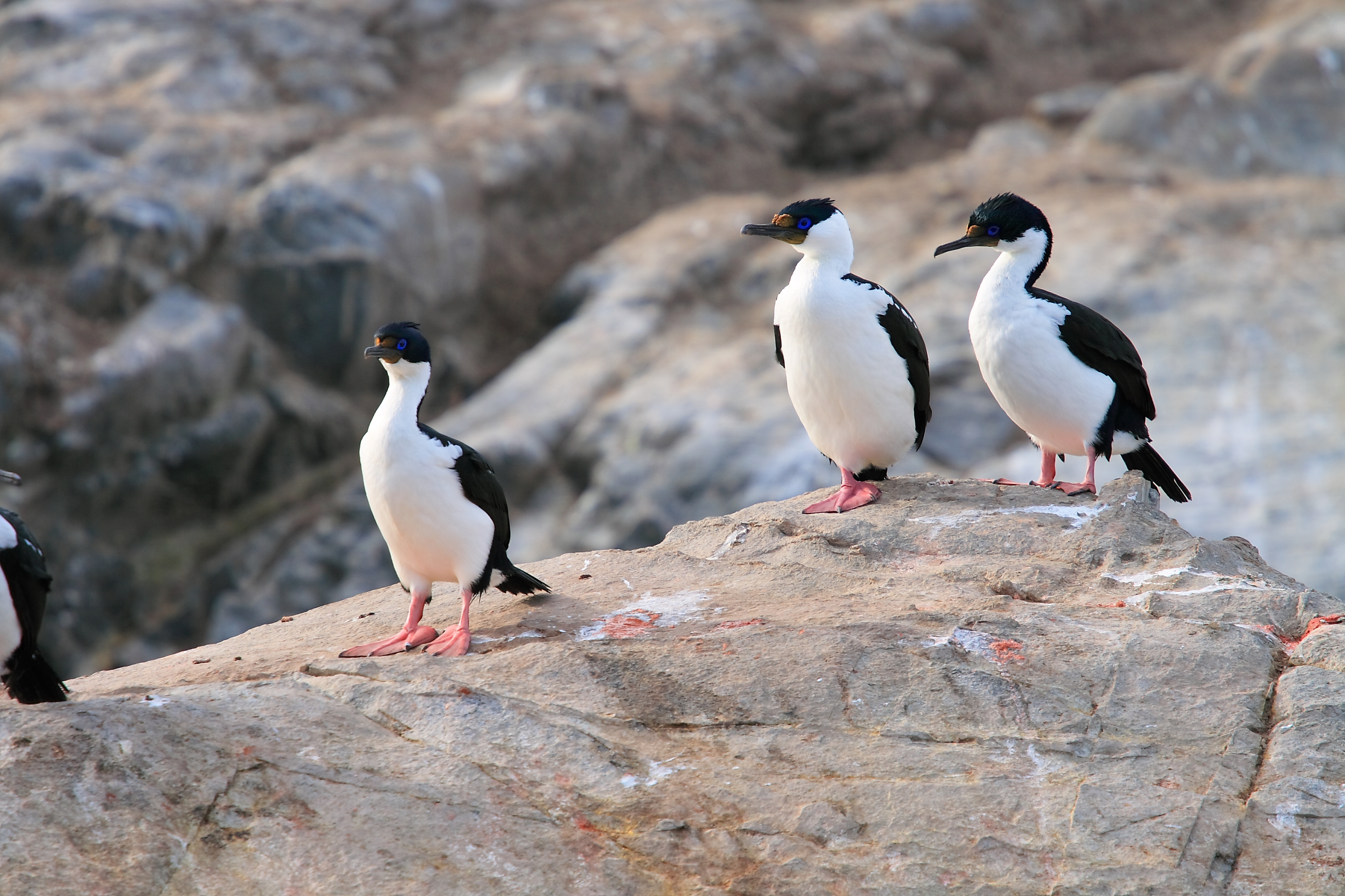 Imperial Shags in the Beagle Channel, southern Argentina